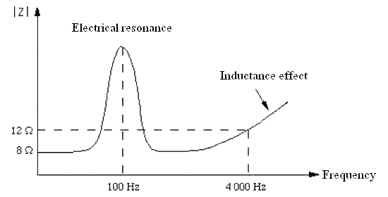 Electrical response of a loudspeaker